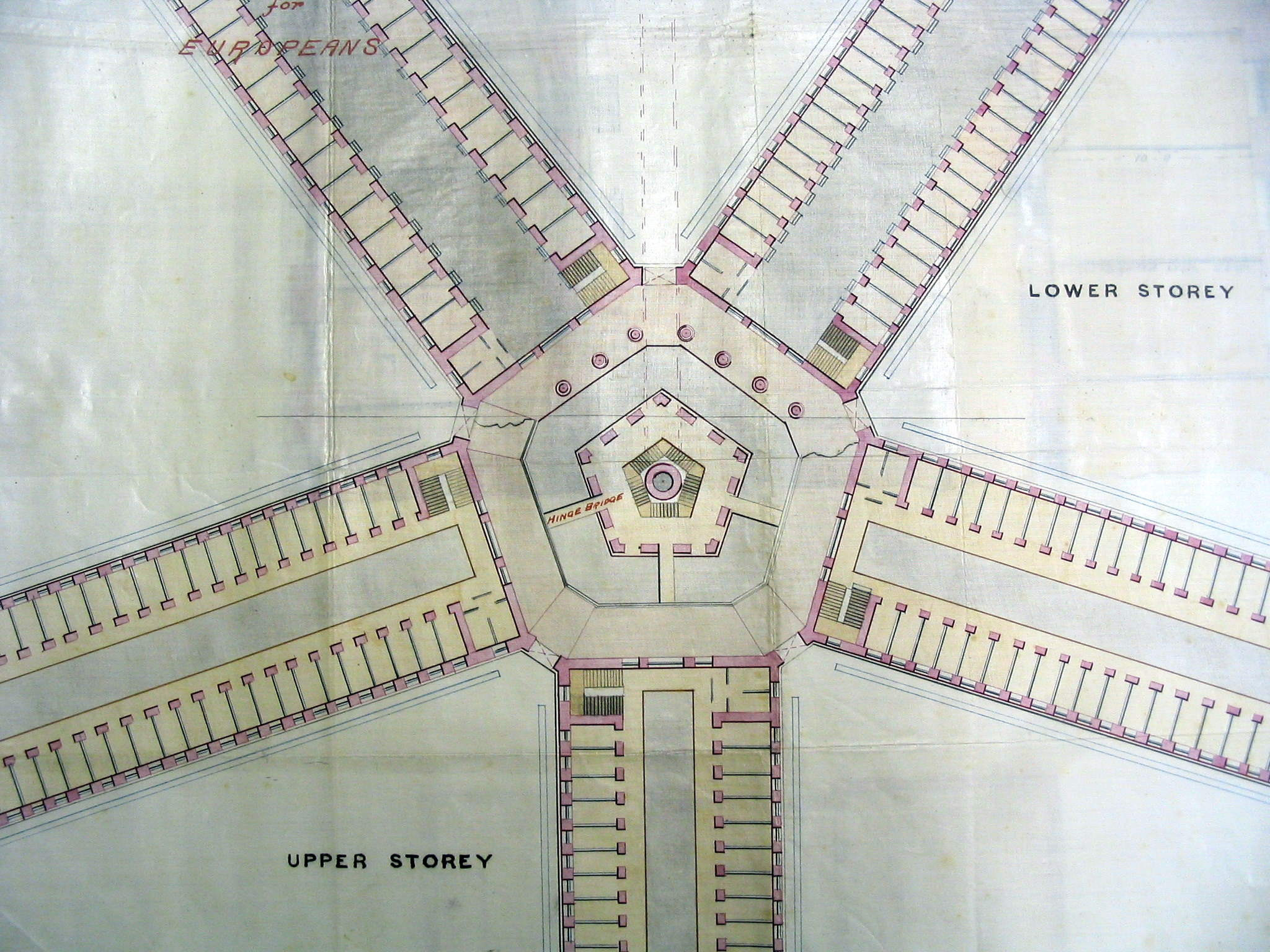 An architectural drawing by J.F.A. McNair, the Executive Engineer and Superintendent of Convicts of the Straits Settlements. It depicts a proposed panopticon-style prison at Outram, Singapore, that was never built.